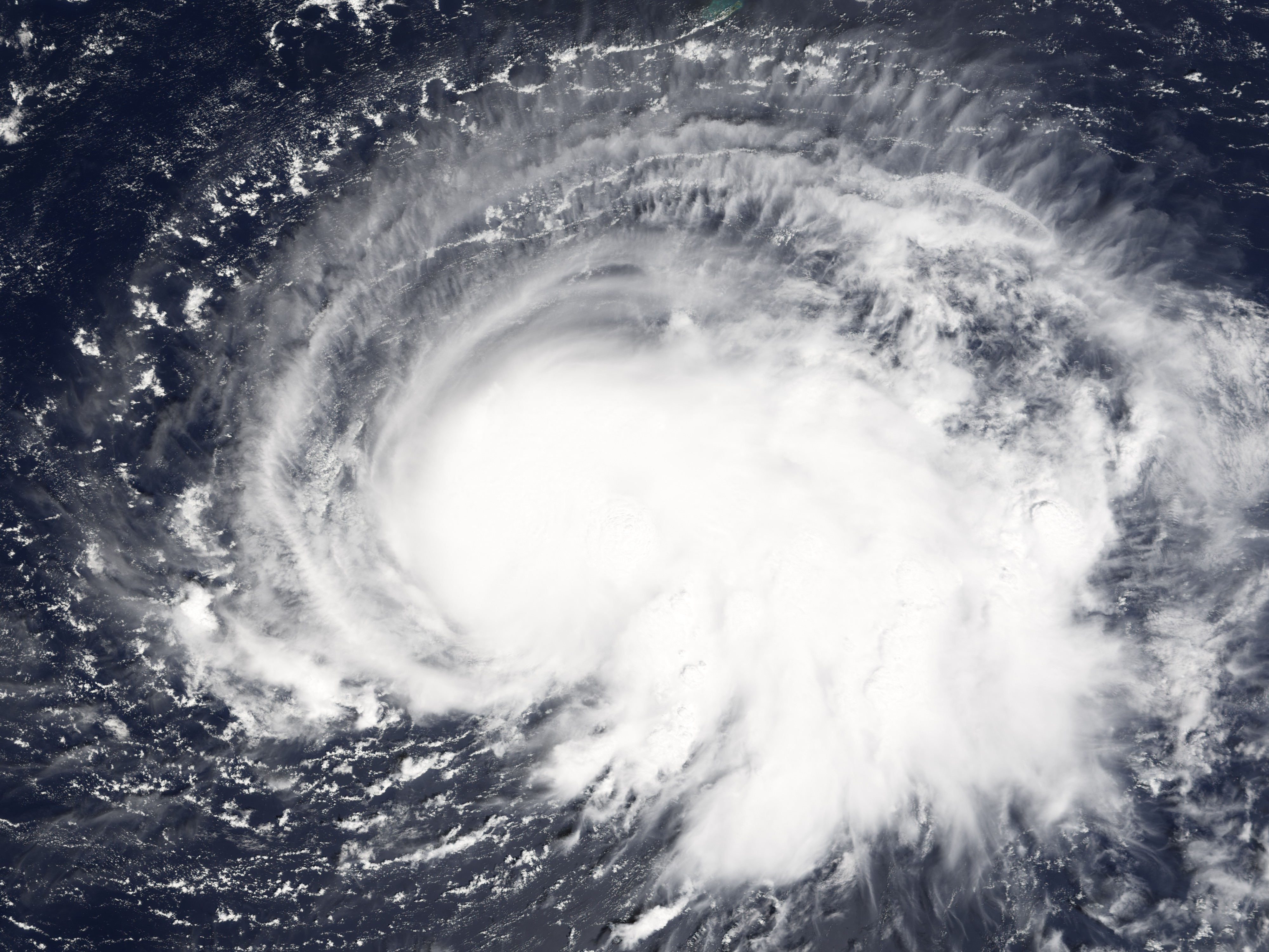 Tropical Storm Nate was becoming better organized on September 6, 2005, when the Moderate Resolution Imaging Spectroradiometer (MODIS) on NASA’s Terra satellite captured this image. The storm had winds of about 95 kilometers per hour (65 mph) with stronger gusts, according to the National Hurricane Center. Nate may strengthen into a weak hurricane and strike Bermuda as it moves northeast over the Atlantic Ocean.